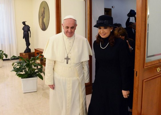 Argentina's president and Pope Francis. Vatican, March 19 2013.